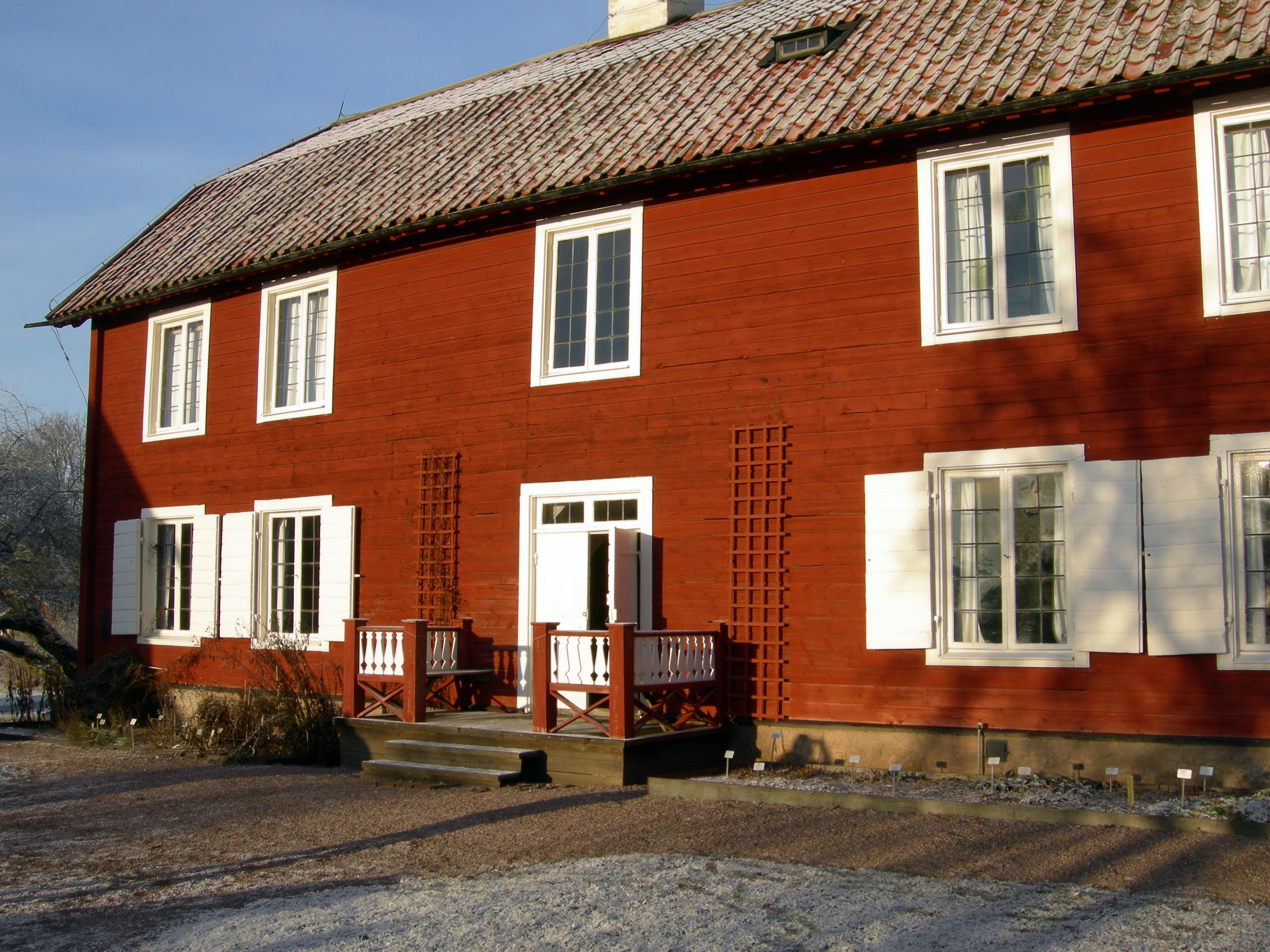 The Linnaeus summer home at Hammarby, south of Uppsala.